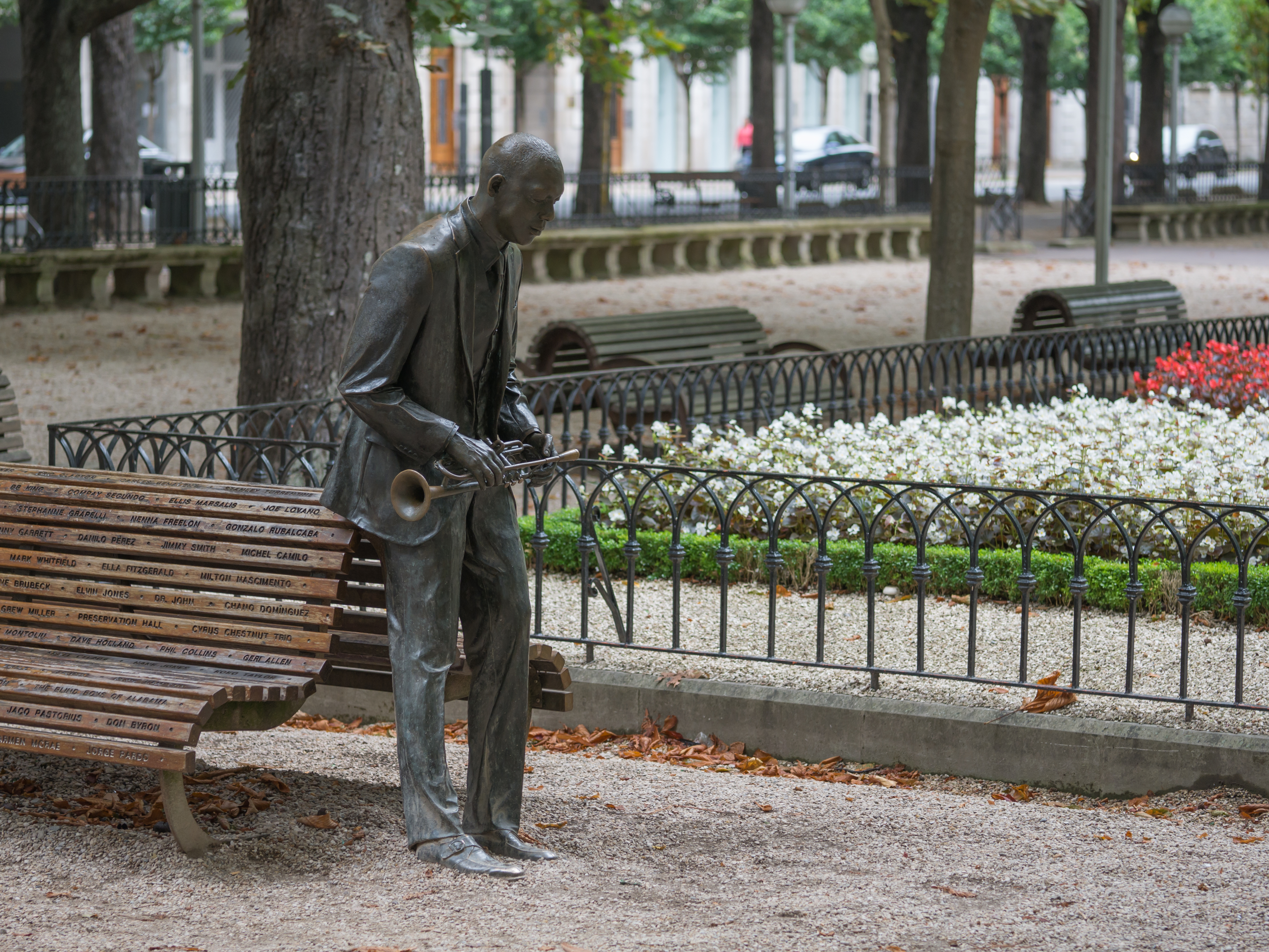 Bench and statue of Wynton Marsalis, honoring the musician and the jazz festival "Festival de Jazz de Vitoria". The bench shows the names of musicians who participated in the festival. Vitoria-Gasteiz, Basque Country, Spain